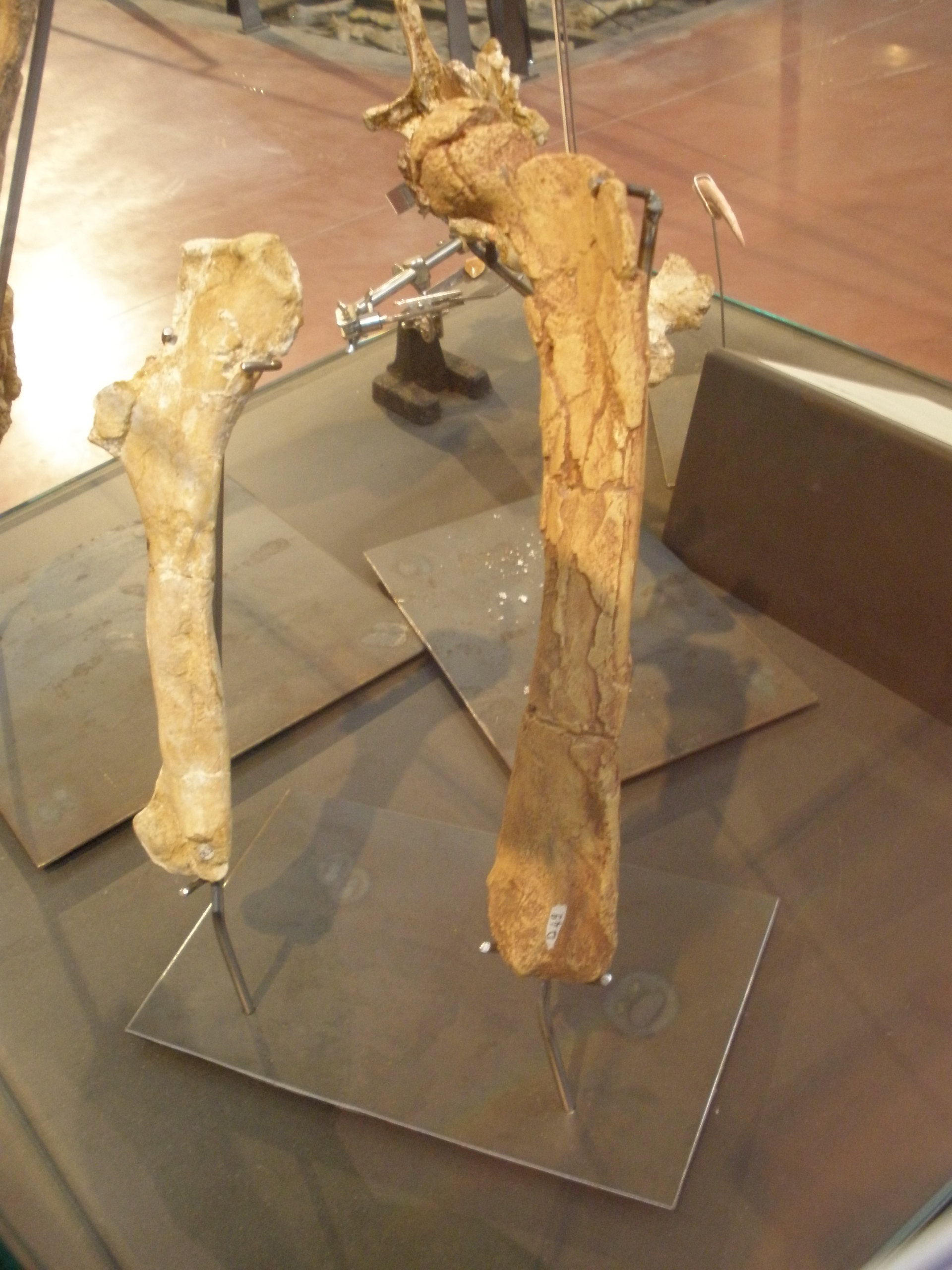 fossil of Variraptor mechinorum, an extinct dromaeosaur